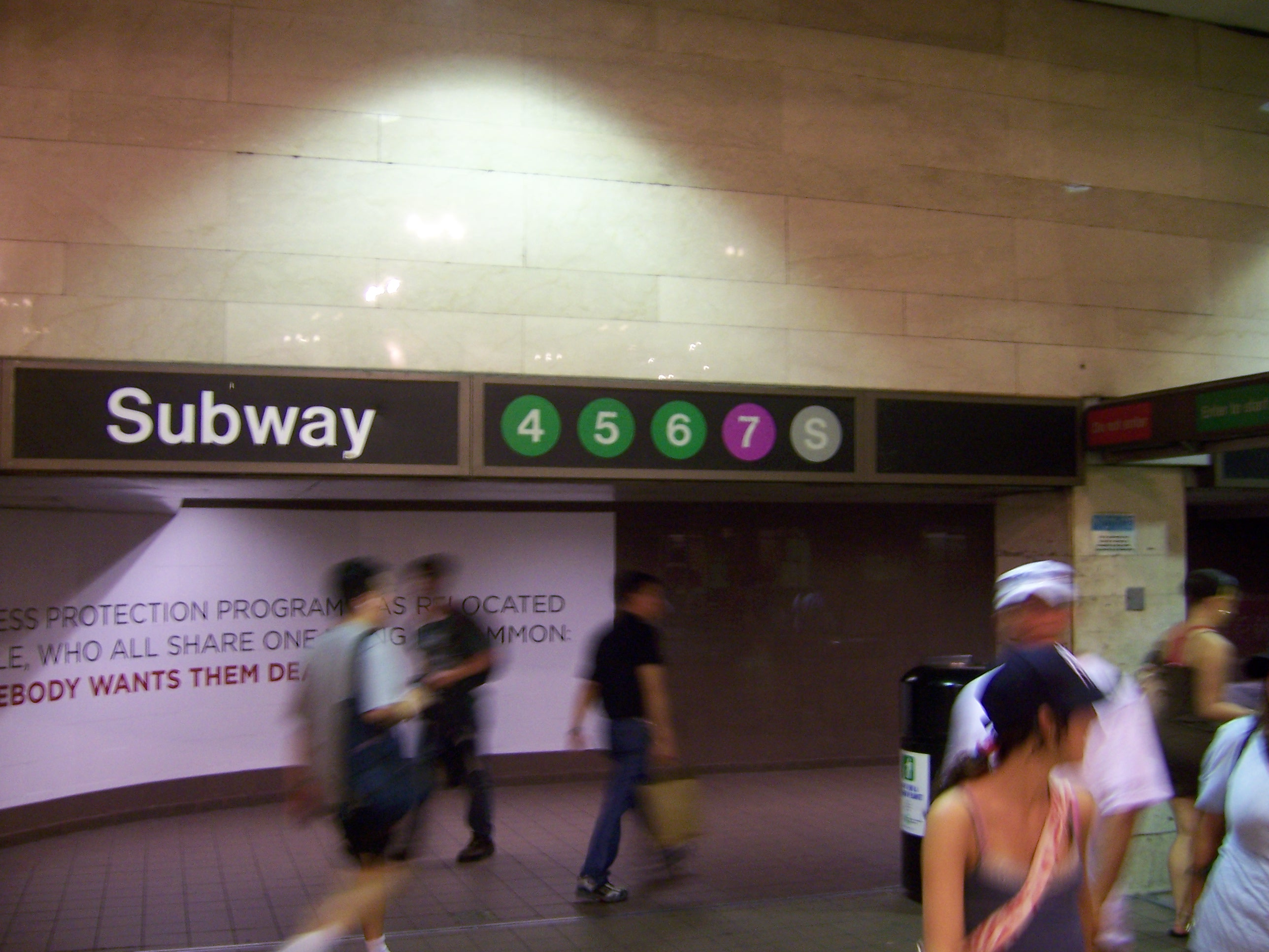 Subway enterance